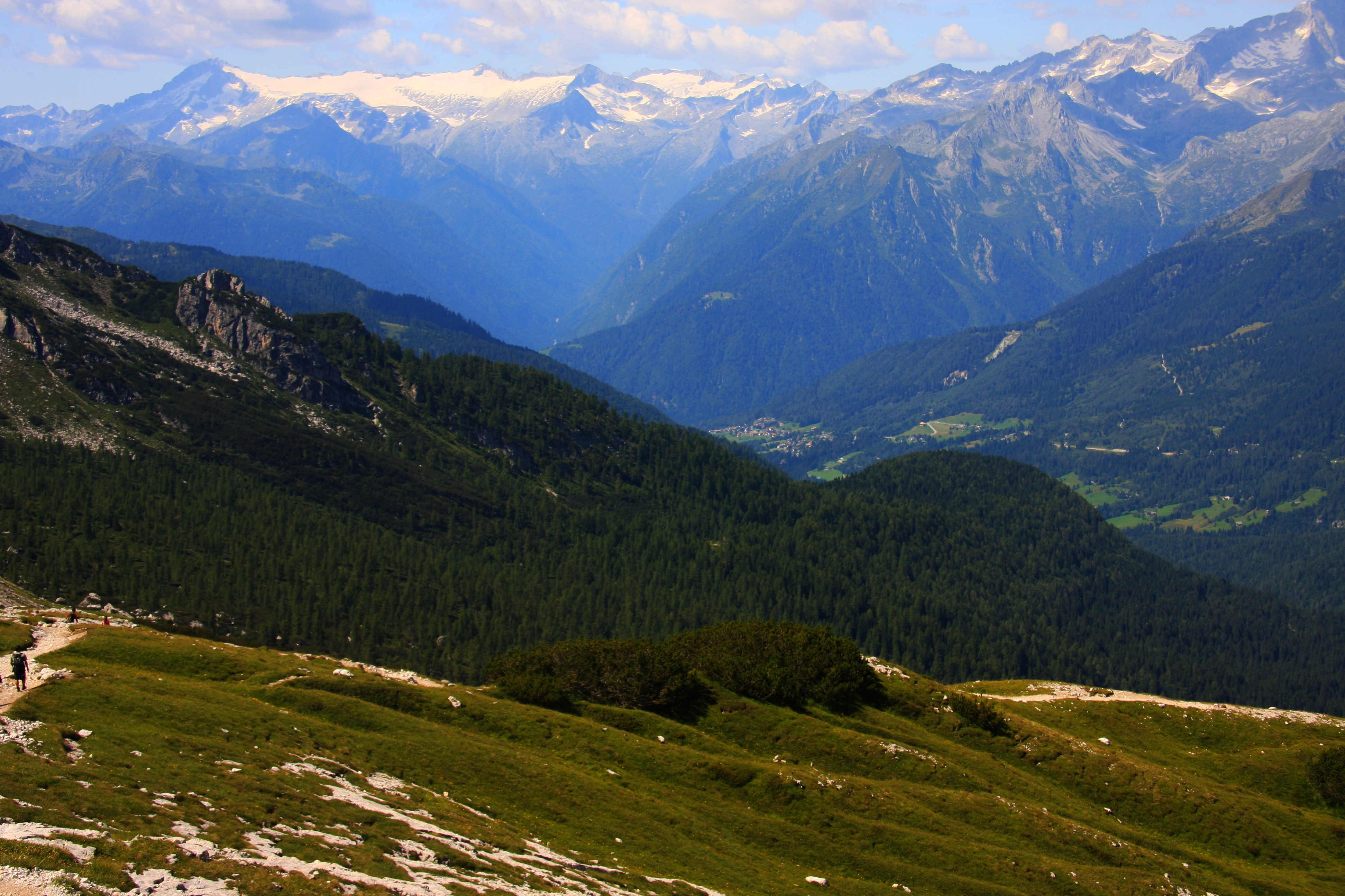 View on Val Rendena valley, Adamello-Presanella Group in background